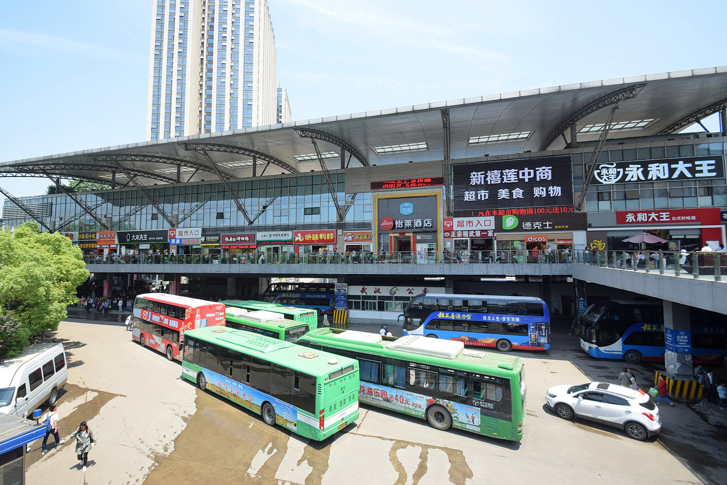 Wuchang Railway Station Bus Terminal